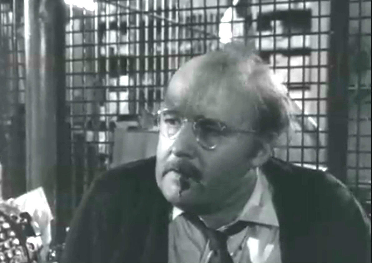 Rod Steiger in The Pawnbroker from the trailer for the film.